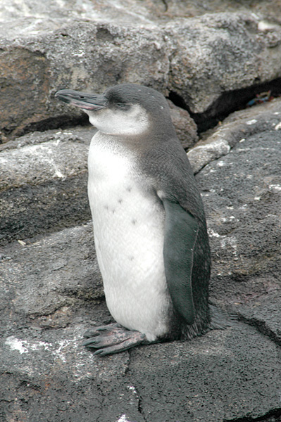 Galapagos Penguin juvenile (Spheniscus mendiculus), Galapagos Islands, Ecuador. Image taken by Clark Anderson/Aquaimages.